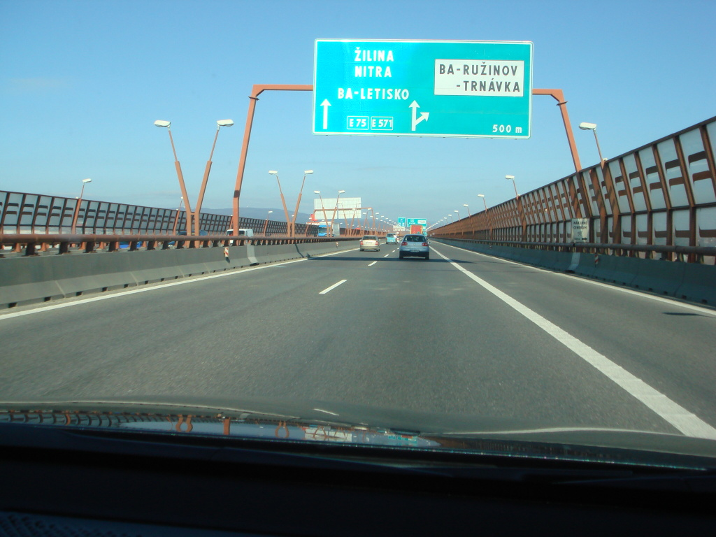 Motorway D1 in Bratislava-Ružinov, app. km 10